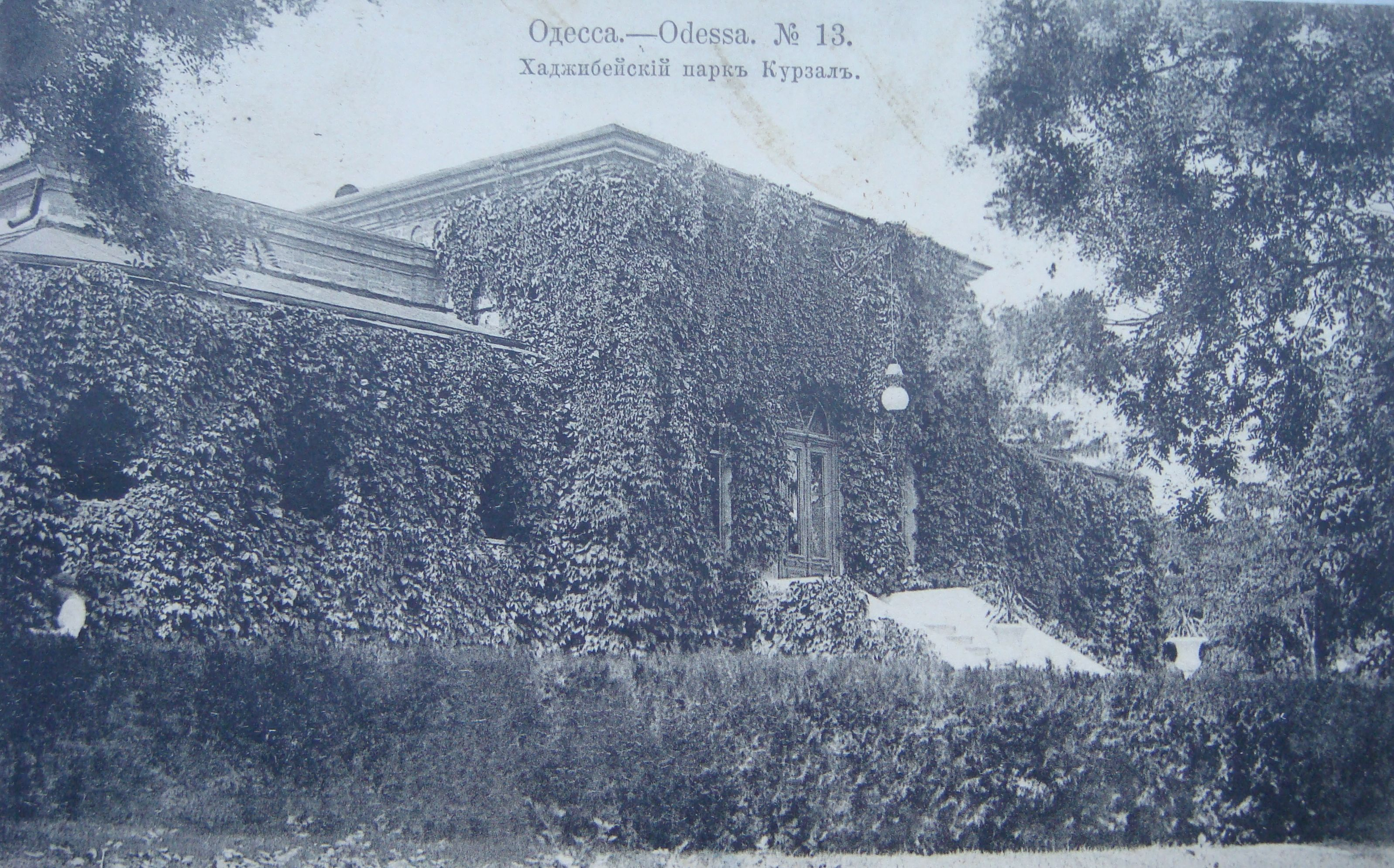 Old Russian Post Card (Carte Postale) with view of Mud Resort at Khadzhibeyskiy Liman at Odessa. Post card used in 1915.